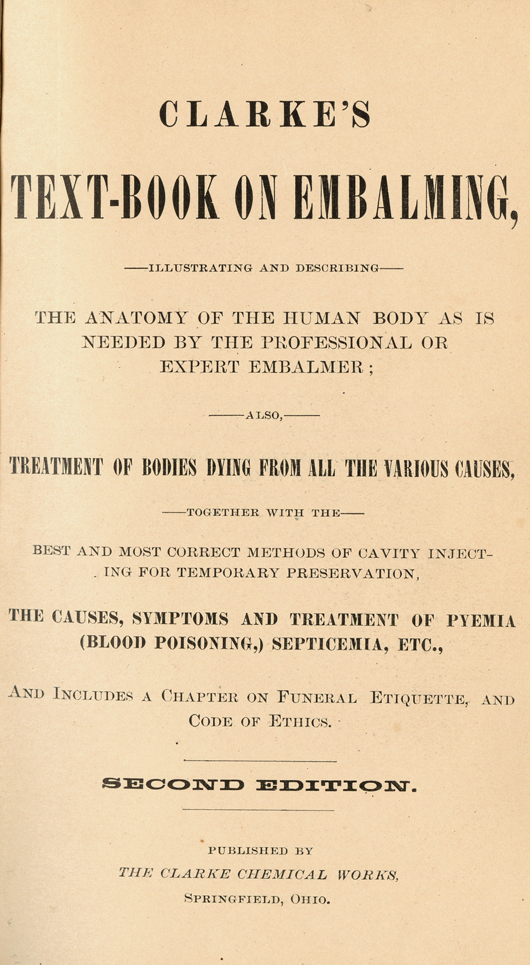 Introduction page to Joseph Henry Clarke's textbook on embalming